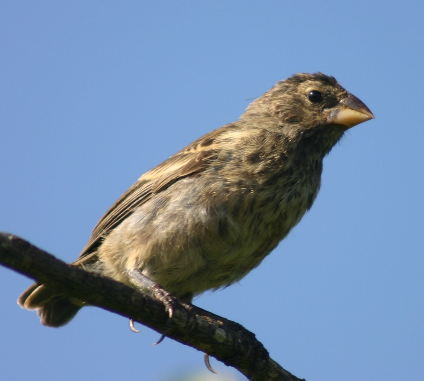 Female Galápagos medium ground finch (Geospiza fortis), Mangle Point, Fernandino Island, Galapagos Islands